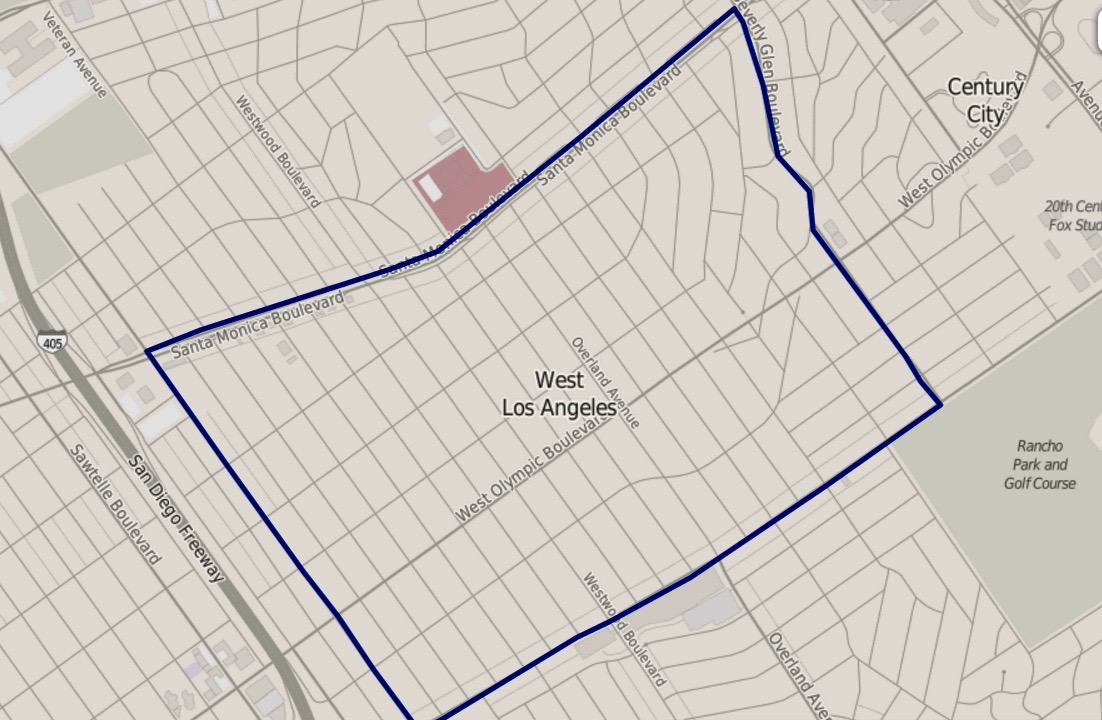 Map of West Los Angeles as defined by the Los Angeles Times. Other information Note lower right corner of map seen on the above links, where the notice is given.